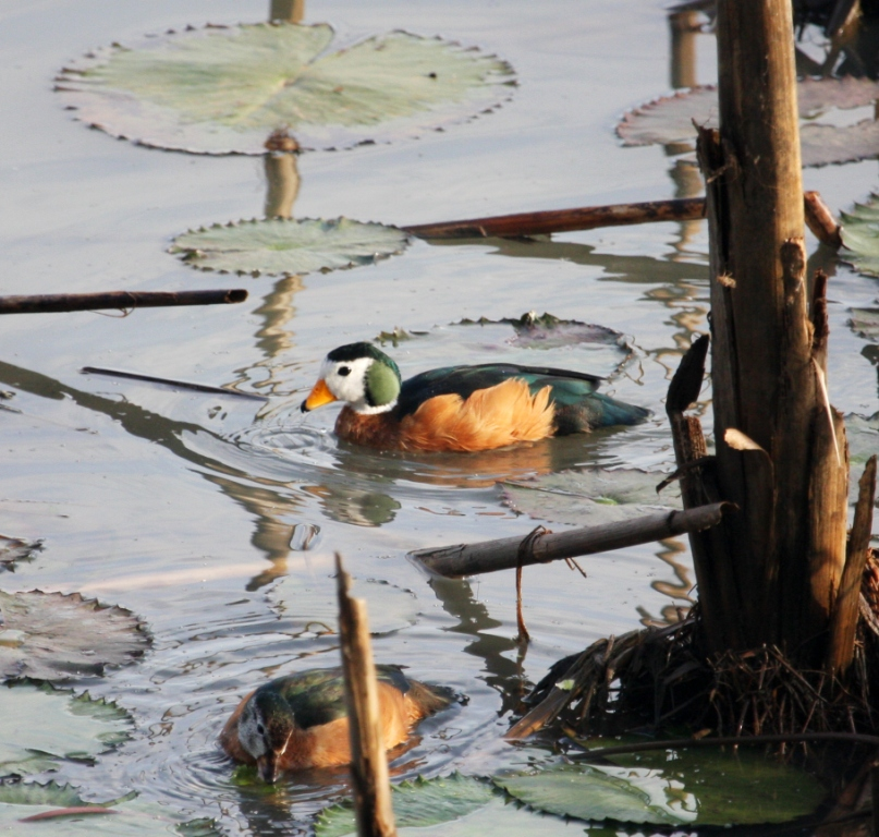 Pair of African Pygmy Geese (African Pygmy Goose) at south-eastern shore of Lake Tana, Bahir Dar, Ethiopia